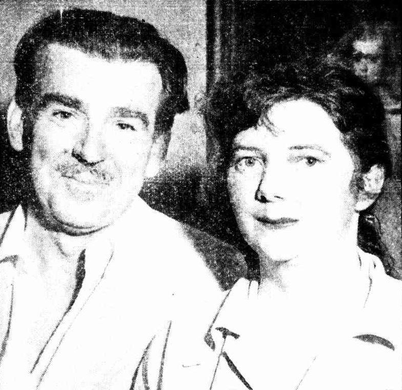 William Dobell with Margaret Olley, 1949